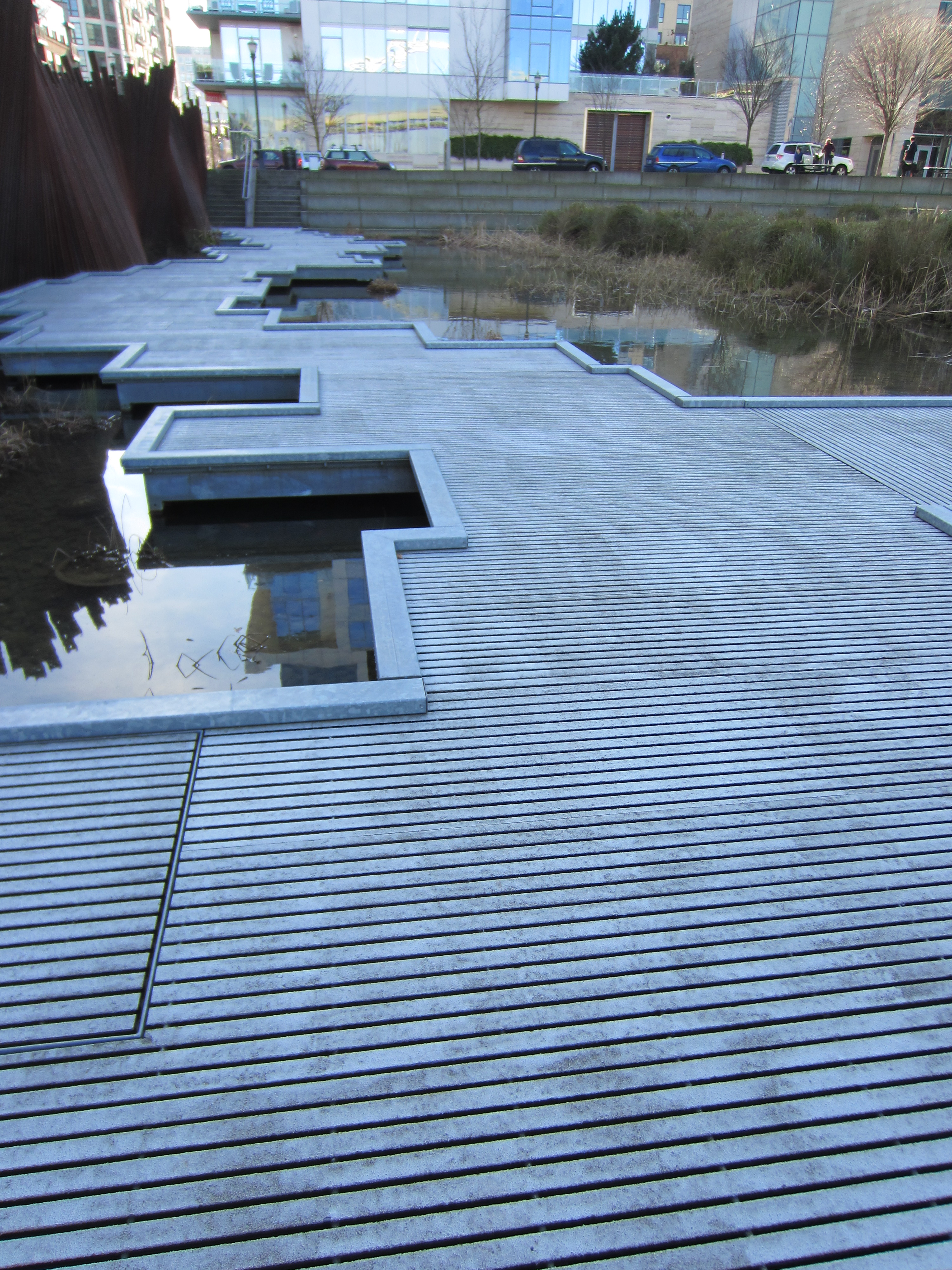 Tanner Springs Park in Pearl District, Portland, Oregon in 2012